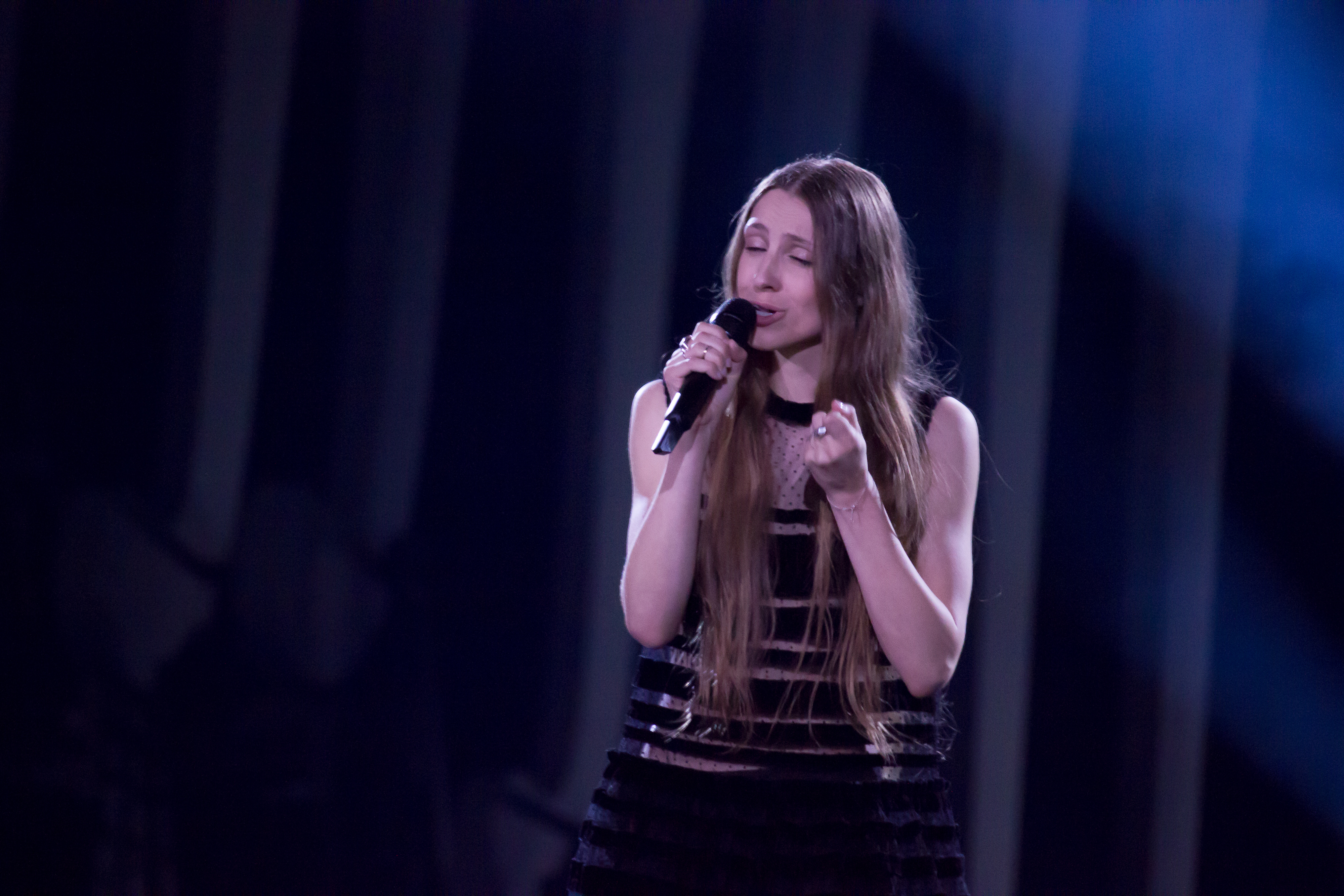 Sennek representing Belgium with the song "A Matter of Time" during a rehearsal before the first semi final of the Eurovision Song Contest 2018 in Lisbon.